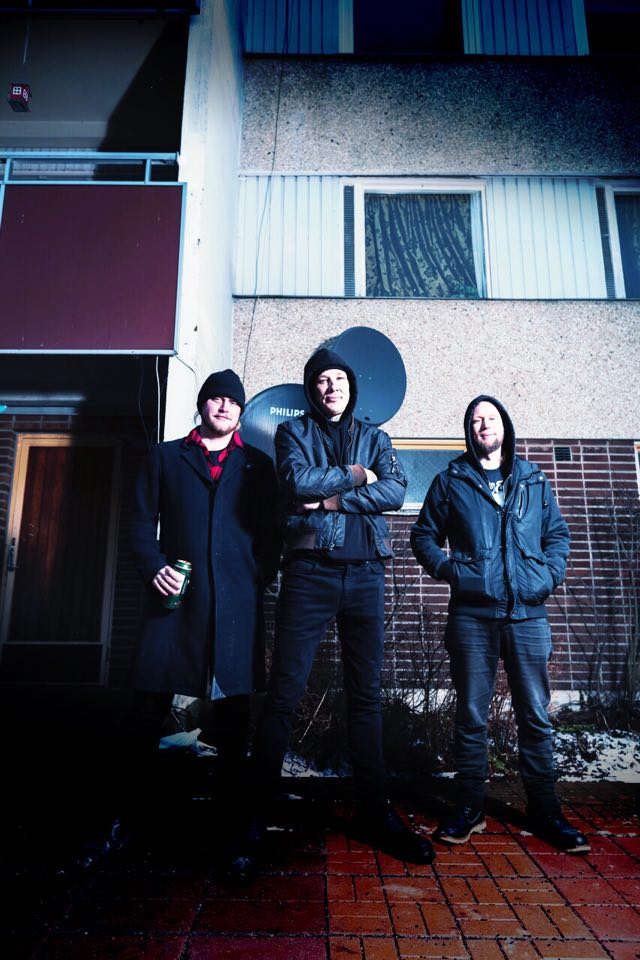 The punk rock band Fornicators in 2019